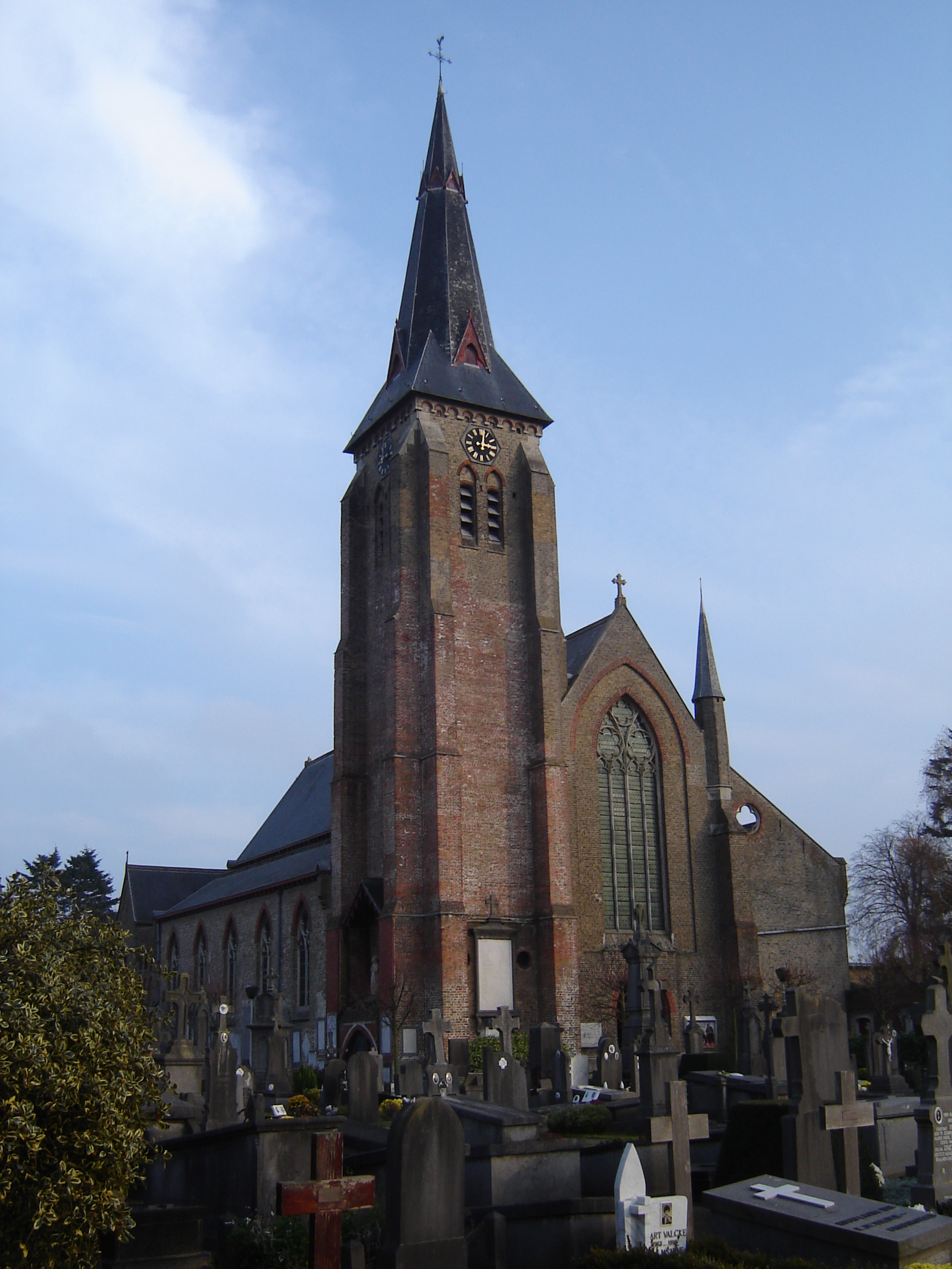 Church of Saint Andrew and Saint Anne in Sint-Andries. Sint-Andries, Brugge, West Flanders, Belgium.